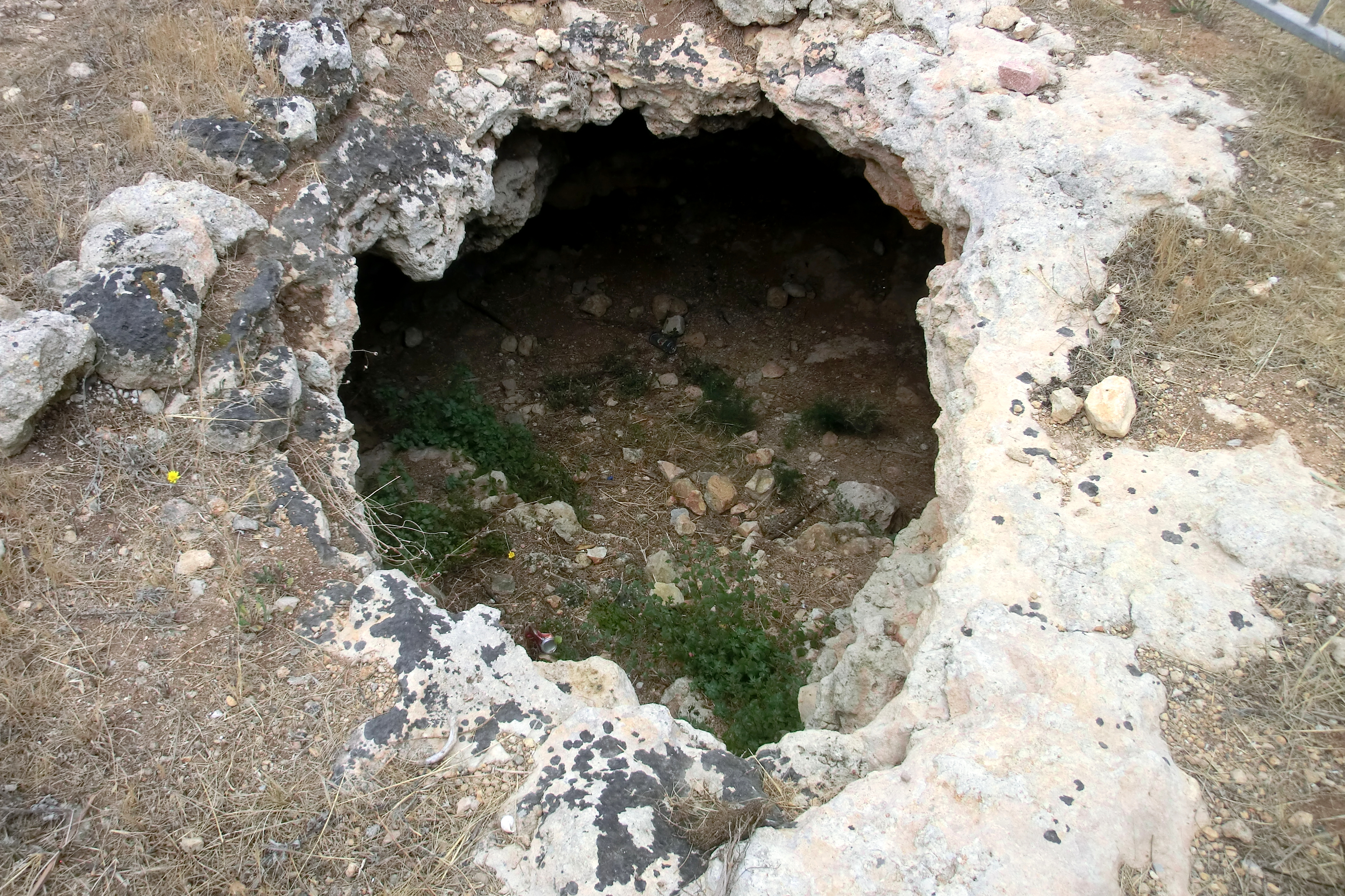 Archeological site Għejzu Cave in Xagħra, Gozo, Malta.